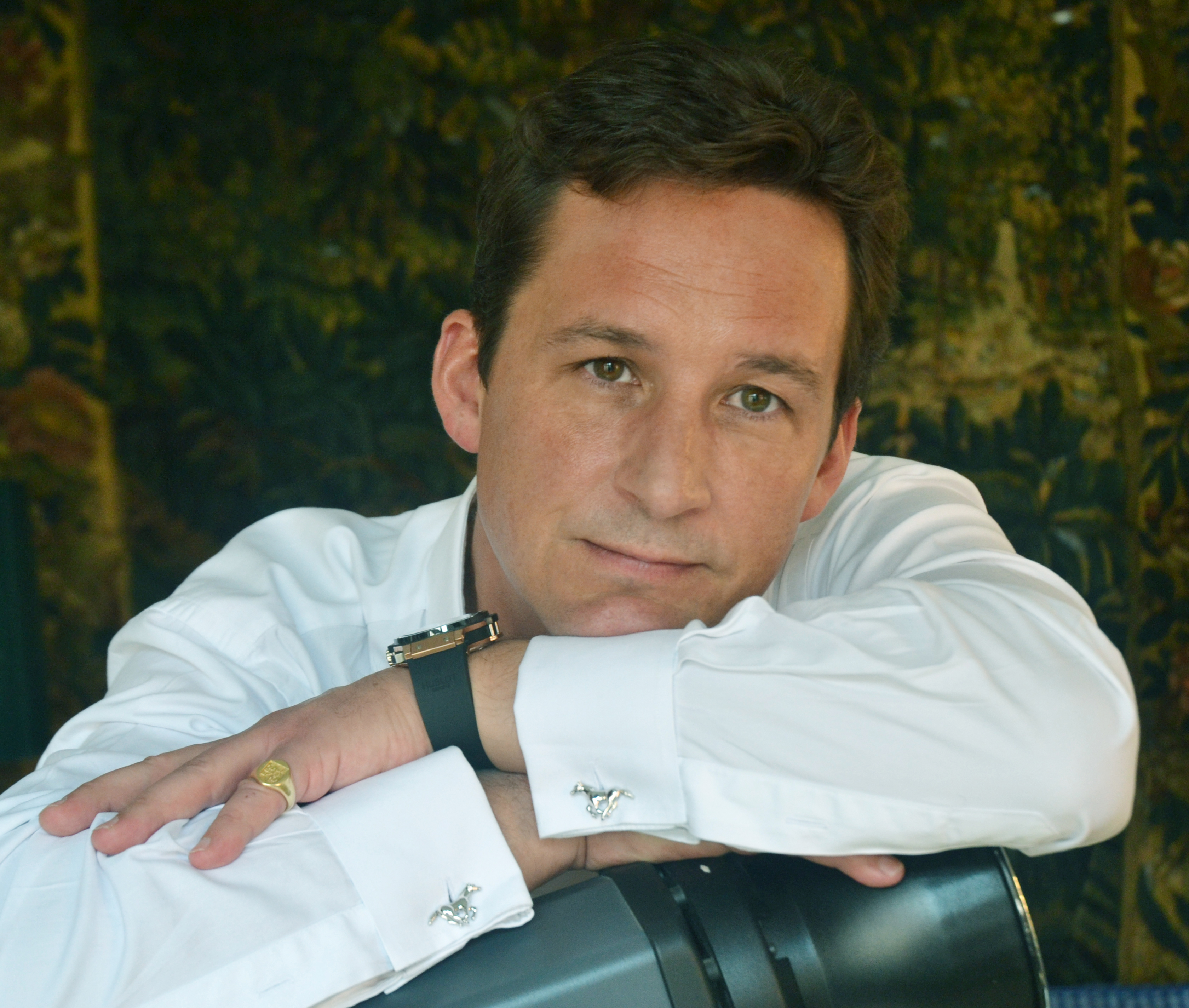 Torquhil Ian Campbell, 13th and 6th Duke of Argyll taken photographer's studio London